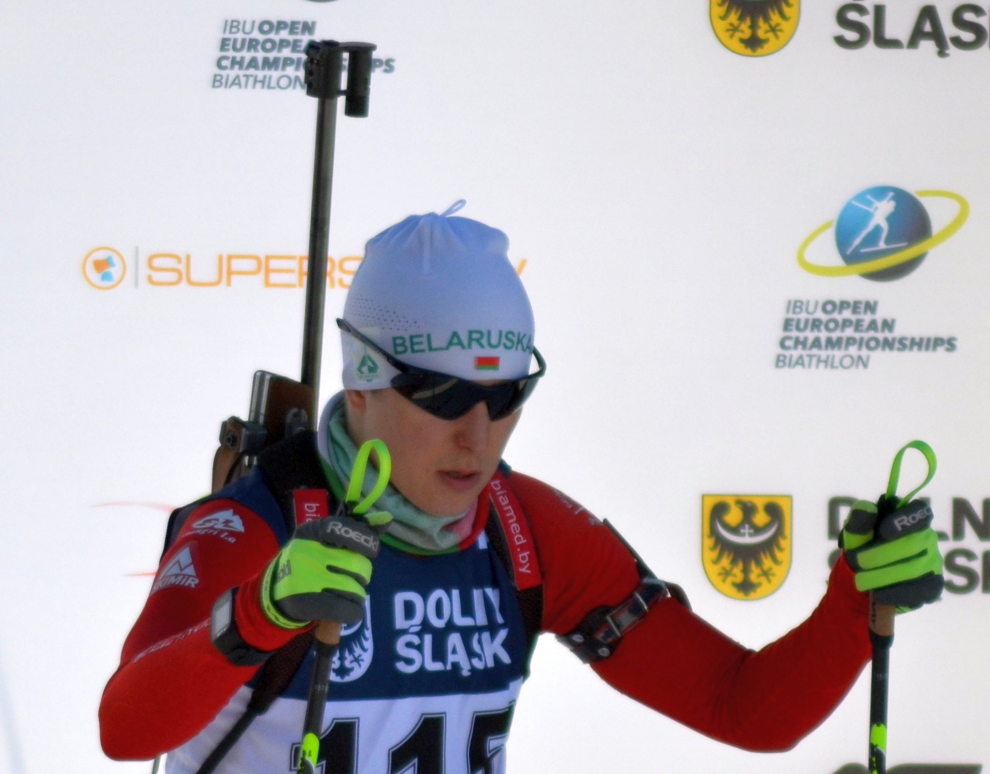 Open European Championships Biathlon 2017, Sprint Men's race, held on January 27th.